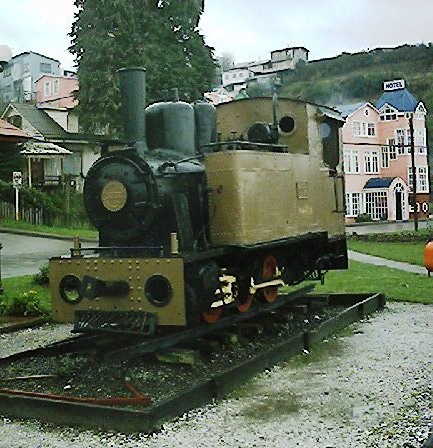 FCE Nr. 5057, according to Amigos del Tren: El camahueto de hierro. (Video at 26:36 min). Henschel 9851-3 or Arnold Jung engine No. 1857 of 1912 Reference